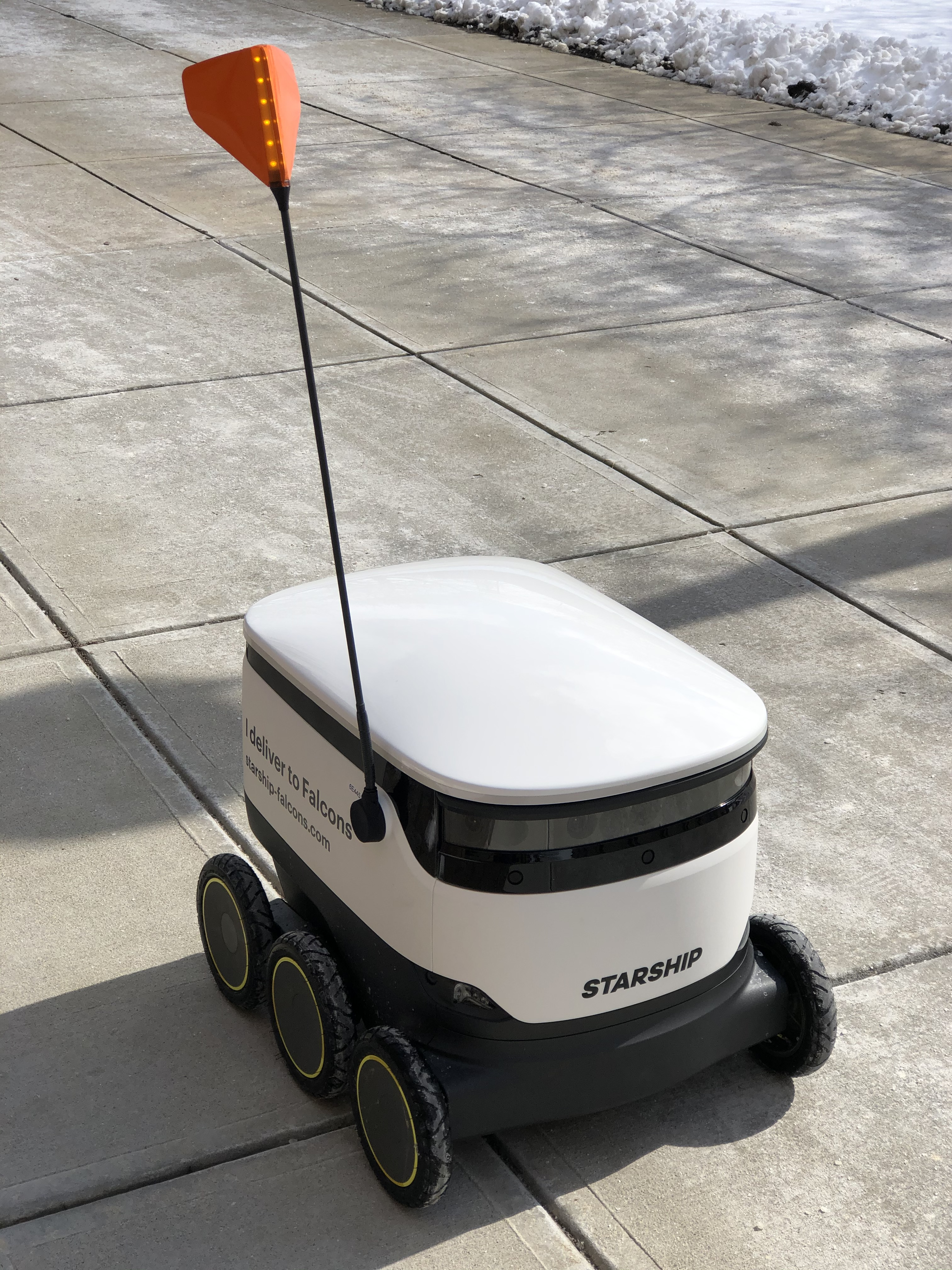 A Starship Robot operating in the Winter. Salt can be seen on the tires. The Bowling Green State University Business building is located to the left of the photographer.